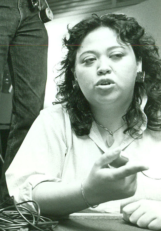 Actor Amy Hill interprets Wayne Wang's film direction on shooting a scene in "Dim Sum: A Little Bit of Heart" on location in San Francisco, California. Photograph taken in 1983 by Nancy Wong.